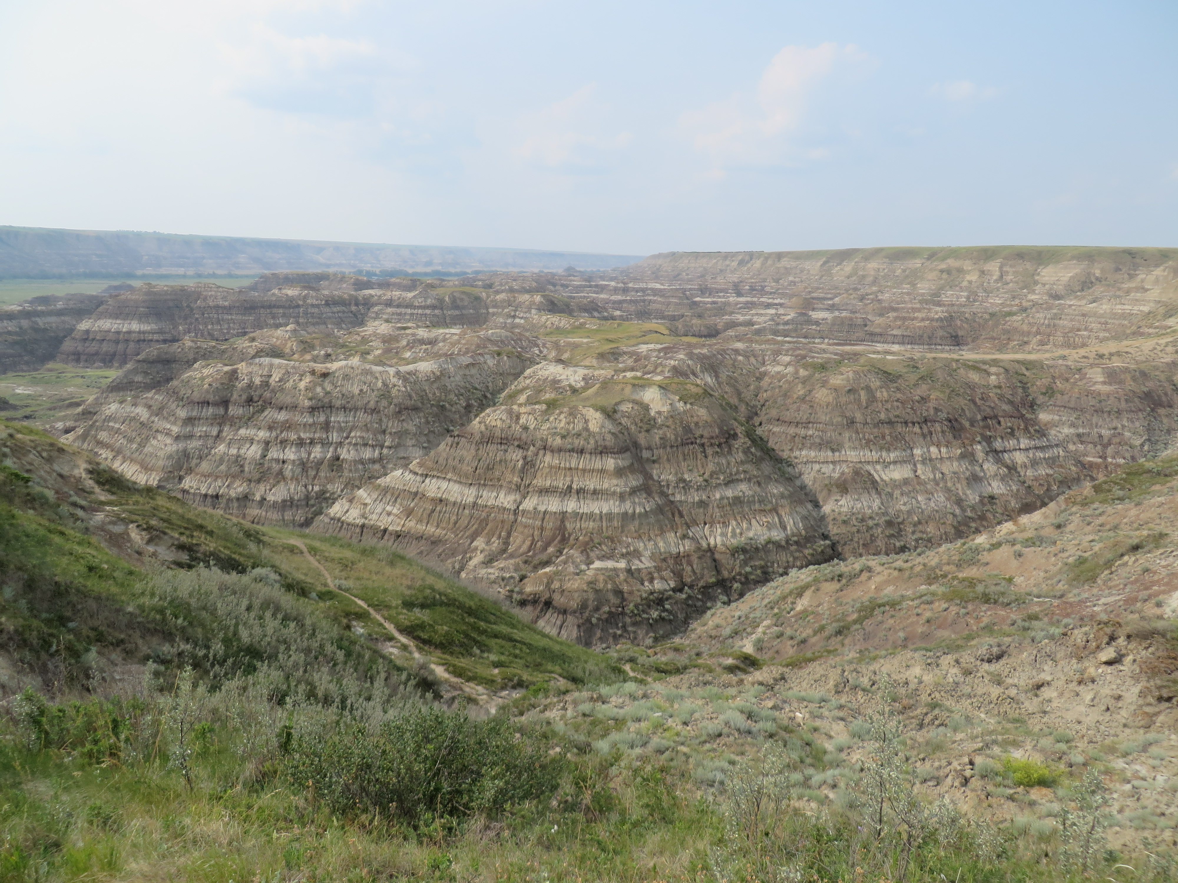 Horsethief Canyon near Drumheller, Alberta, in the Canadian Badlands.